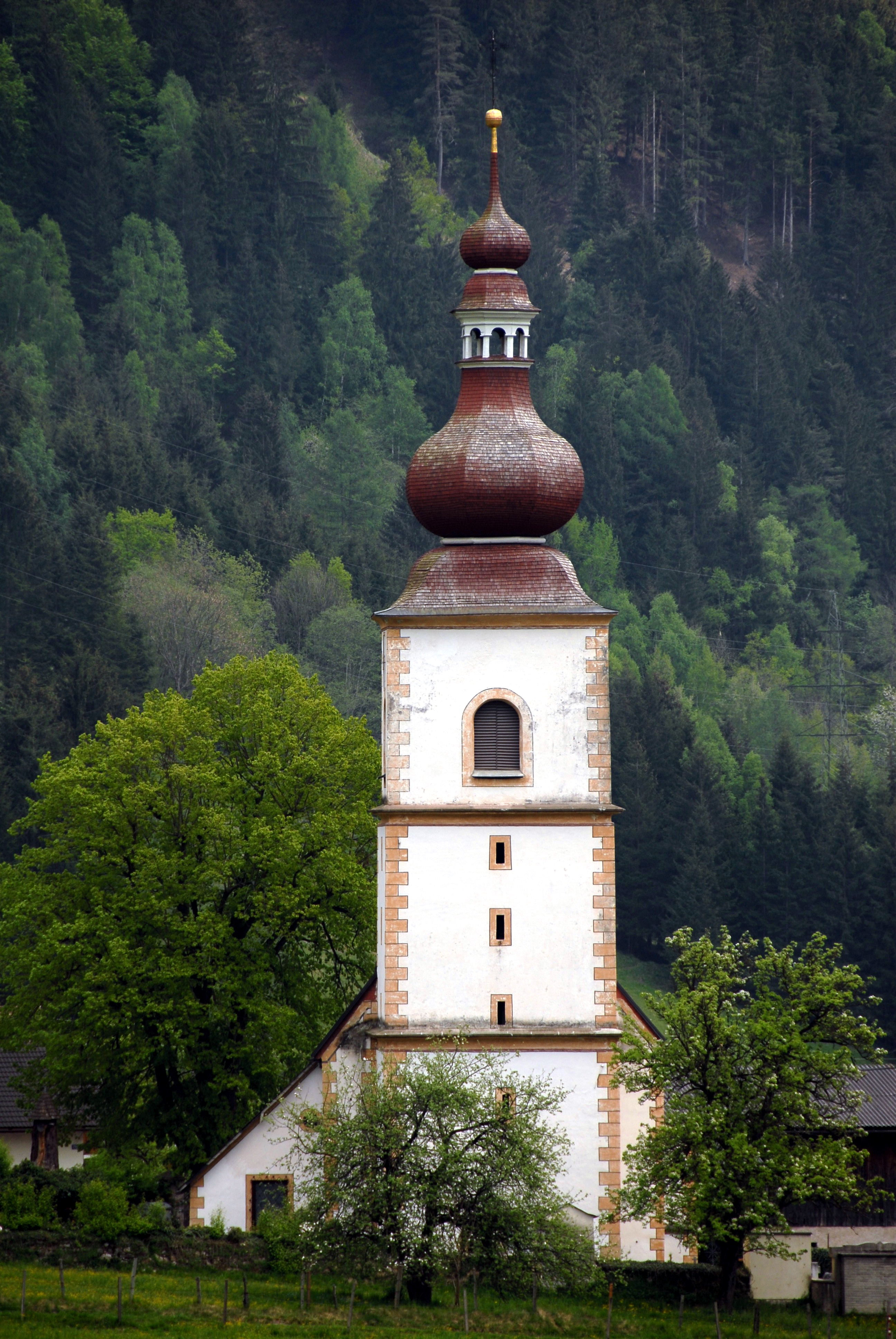 Catholic parish church Saint Nicholas in Afritz, municipality Afritz, district Villach Land, Carinthia, Austria, EU